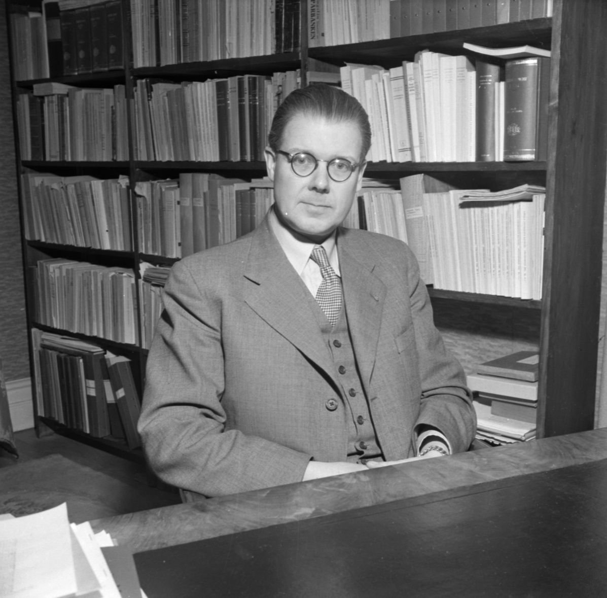 Photograph of the Swedish professor of law Åke Malmström (1905–1985).